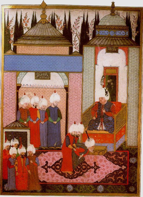 Sultan Selim II receiving the Safavid ambassador in the palace at Edirne in 1567. Hazine. 1339, folio 247b